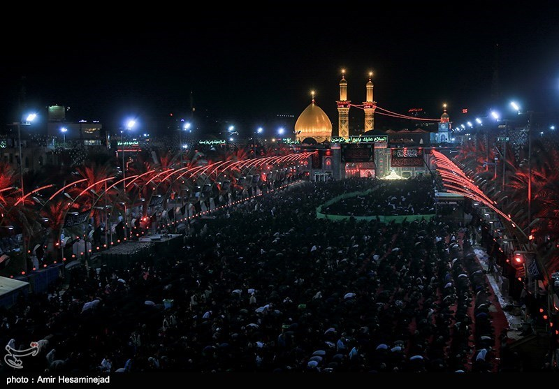 Karbala in Iraq